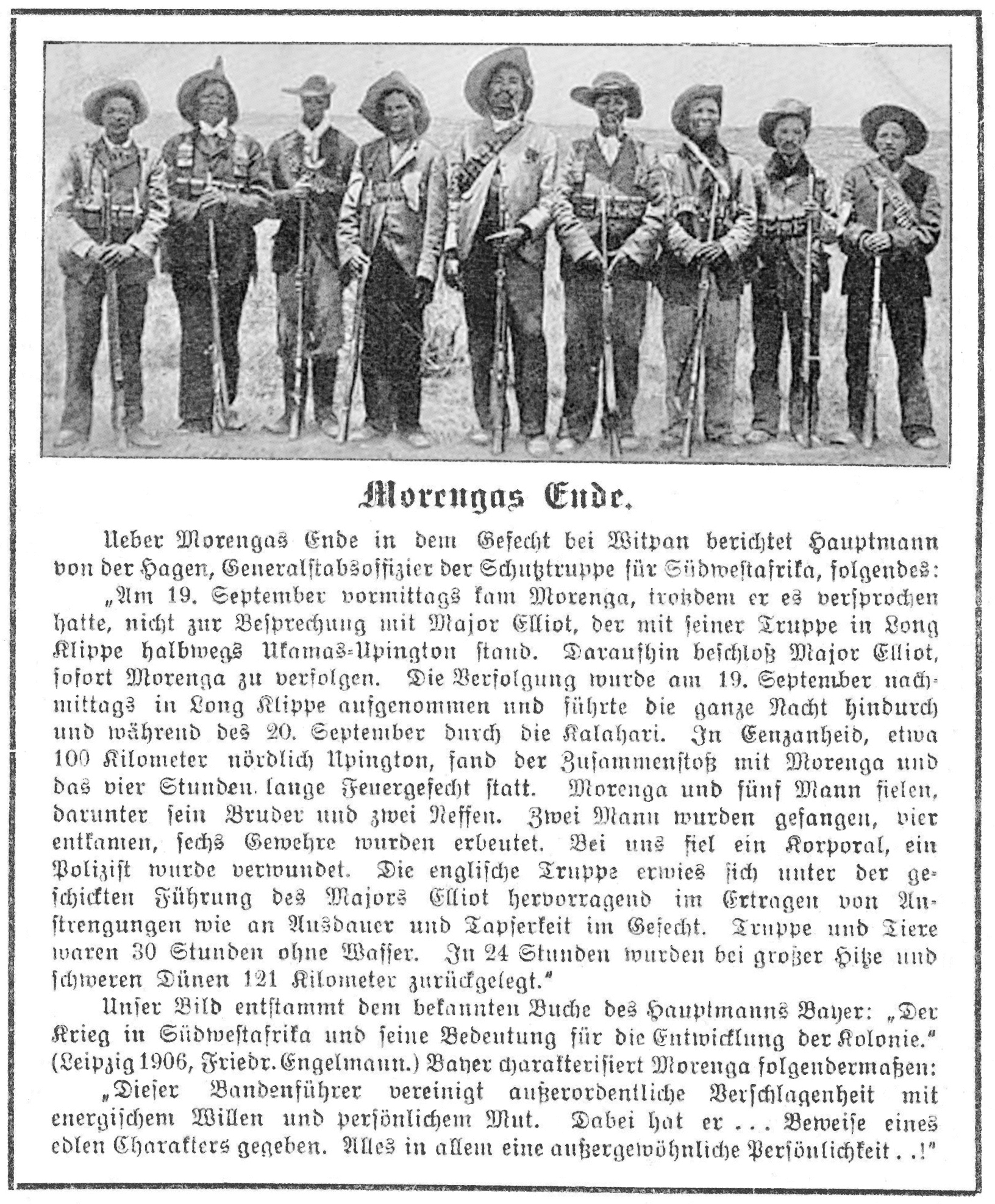 The leader of the African partisans in the insurrection against the German colonial rule, Jacob Morenga (middle), with members of his troop. Article about his death in the Deutschen Kolonialzeitung (German colonial newspaper) dated 10.05.1907.